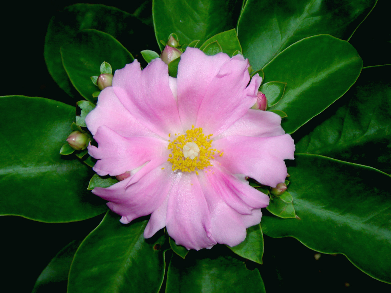 Pereskia grandifolia (location ?)